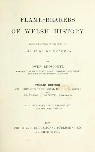 Title page of Flame-bearers of Welsh history, being the outline of the story of The sons of Cunedda (Merthyr Tudful, 1905), by patriotic Welsh author Owen Rhoscomyl. This history book, intended mainly for older children but read by many adults as well, was very popular and influential in its day.